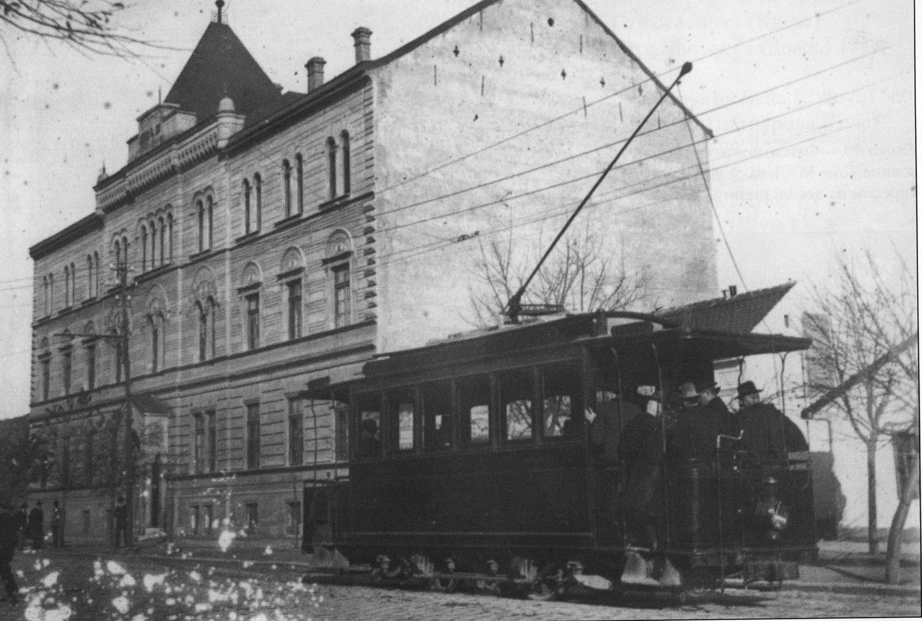 Street in Belgrade